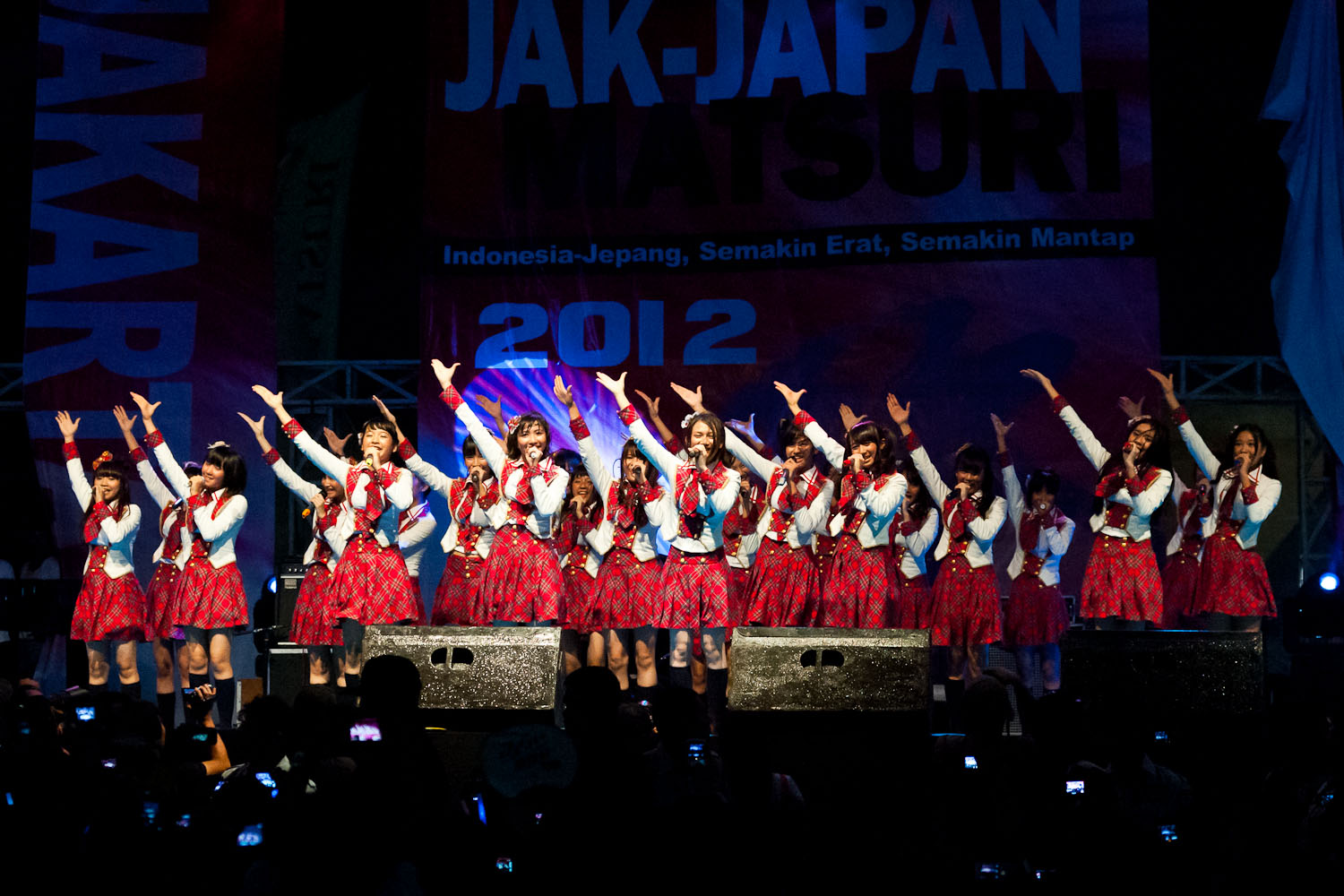 First generation JKT48 members perform "Aitakatta (Ingin Bertemu)" at Jak–Japan Matsuri 2012.